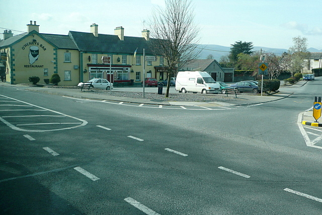 Main Street, Bansha, near to An Bhainseach, Aughnagawer Cross Roads and Ara Bridge, Tipperary, Ireland. The northern approach to Main Street used by the N24, at the junction with the R663. Taken from the Limerick to Waterford coach.